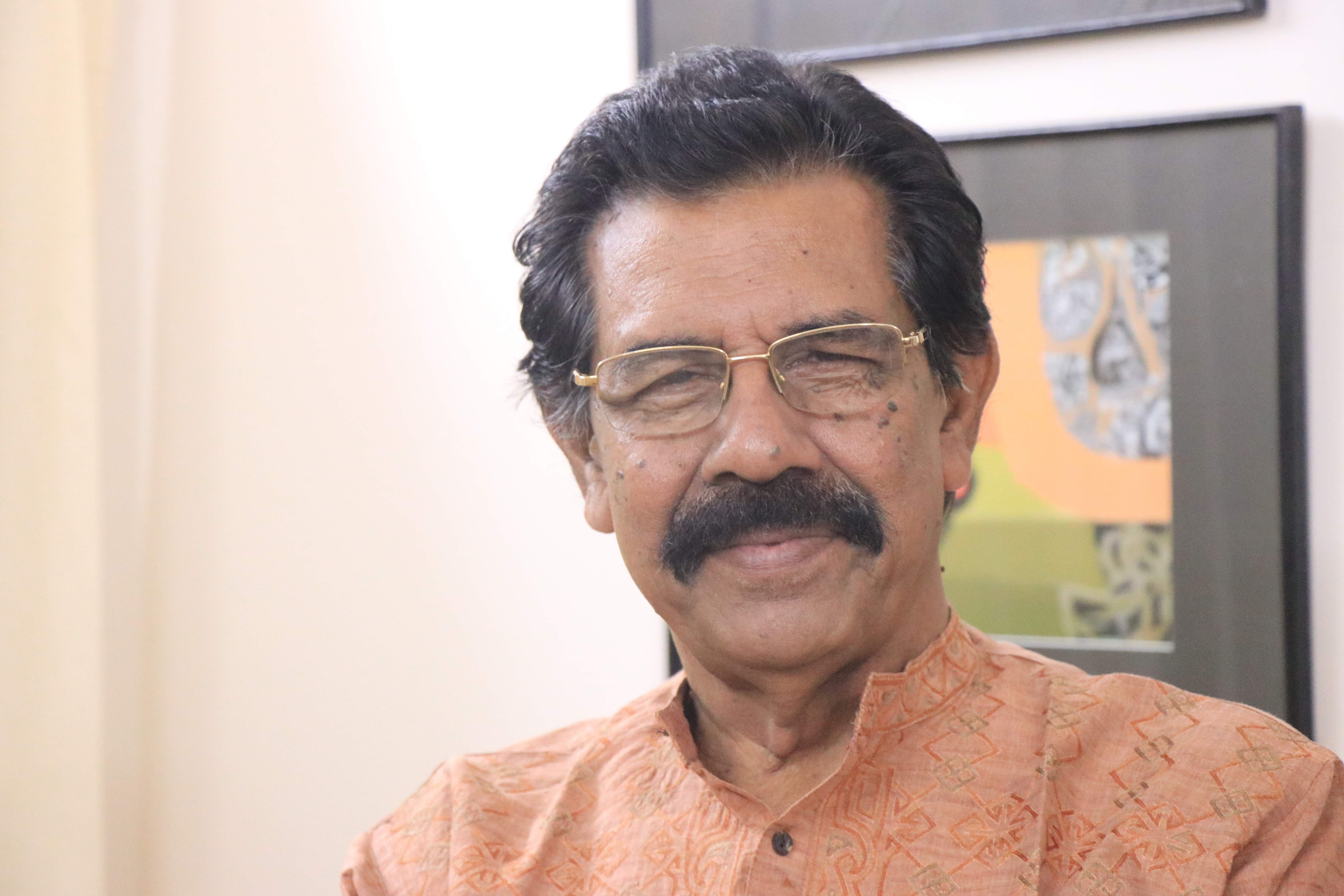 Mohammad Rafiquzzaman, Bangladeshi lyricist and Bangladesh National Film Award winner for Best Lyrics.